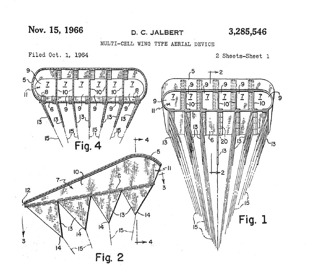 MULTI-CELL WING TYPE AERIAL DEVICE